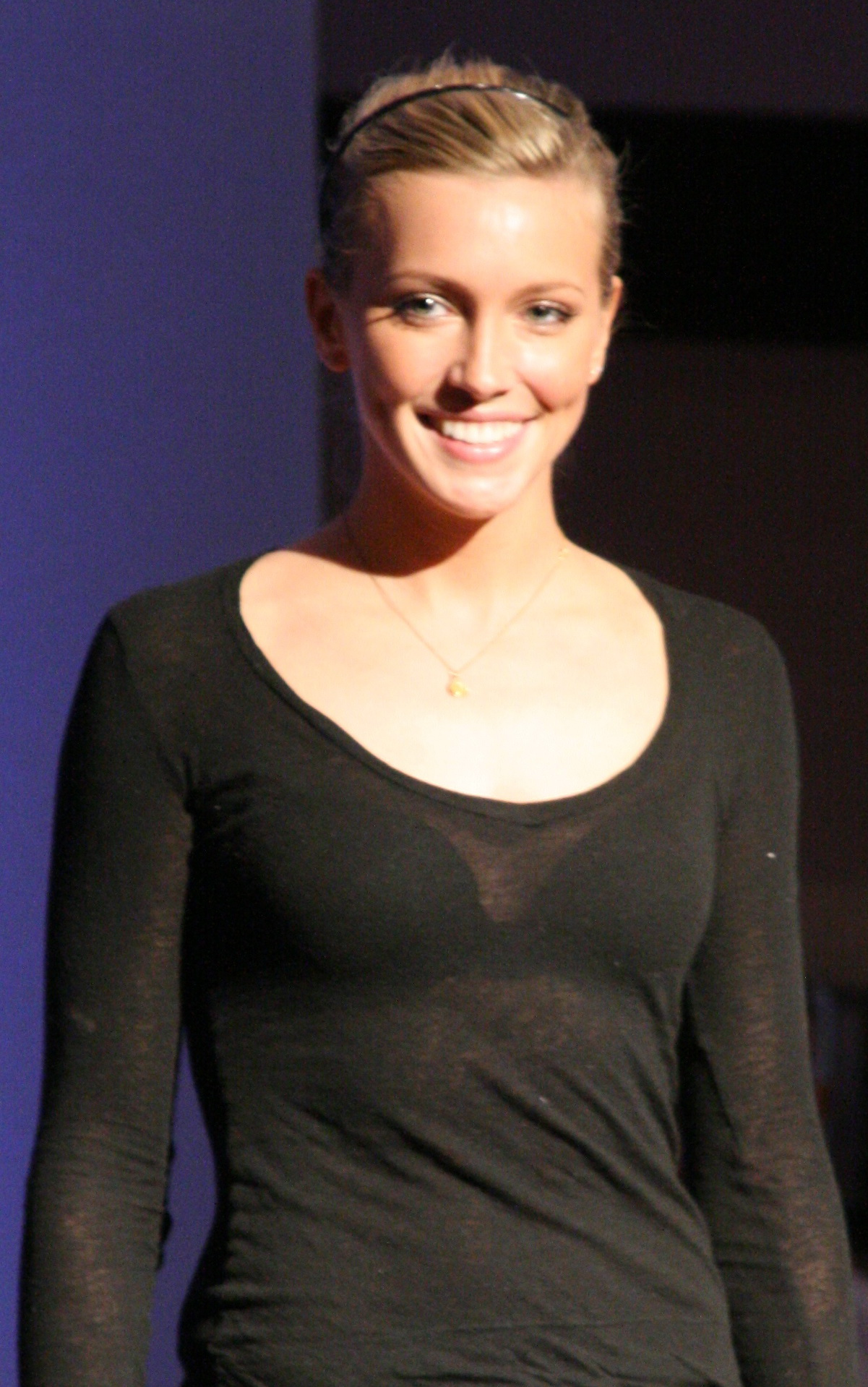 Actress Katie Cassidy